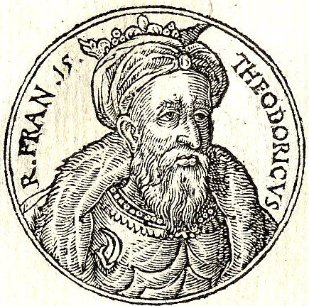 Theuderic III was the king of Neustria on two occasions and king of Austrasia from 679 to his death in 691.